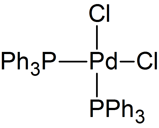 Bis(triphenylphosphine)palladium(II) dichloride